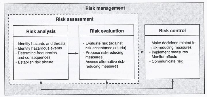 Rausand, Marvin. Risk Assessment: Theory, Methods, and Applications. Hoboken, NJ: John Wiley & Sons, 2011. p.10, Figure 1.3